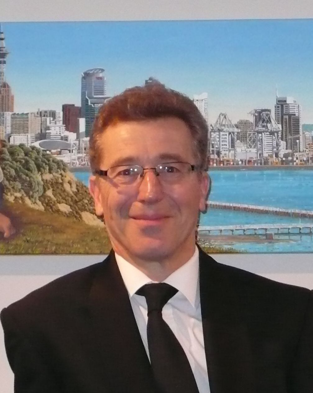 George Baloghy, Hungarian painter from New Zealand.